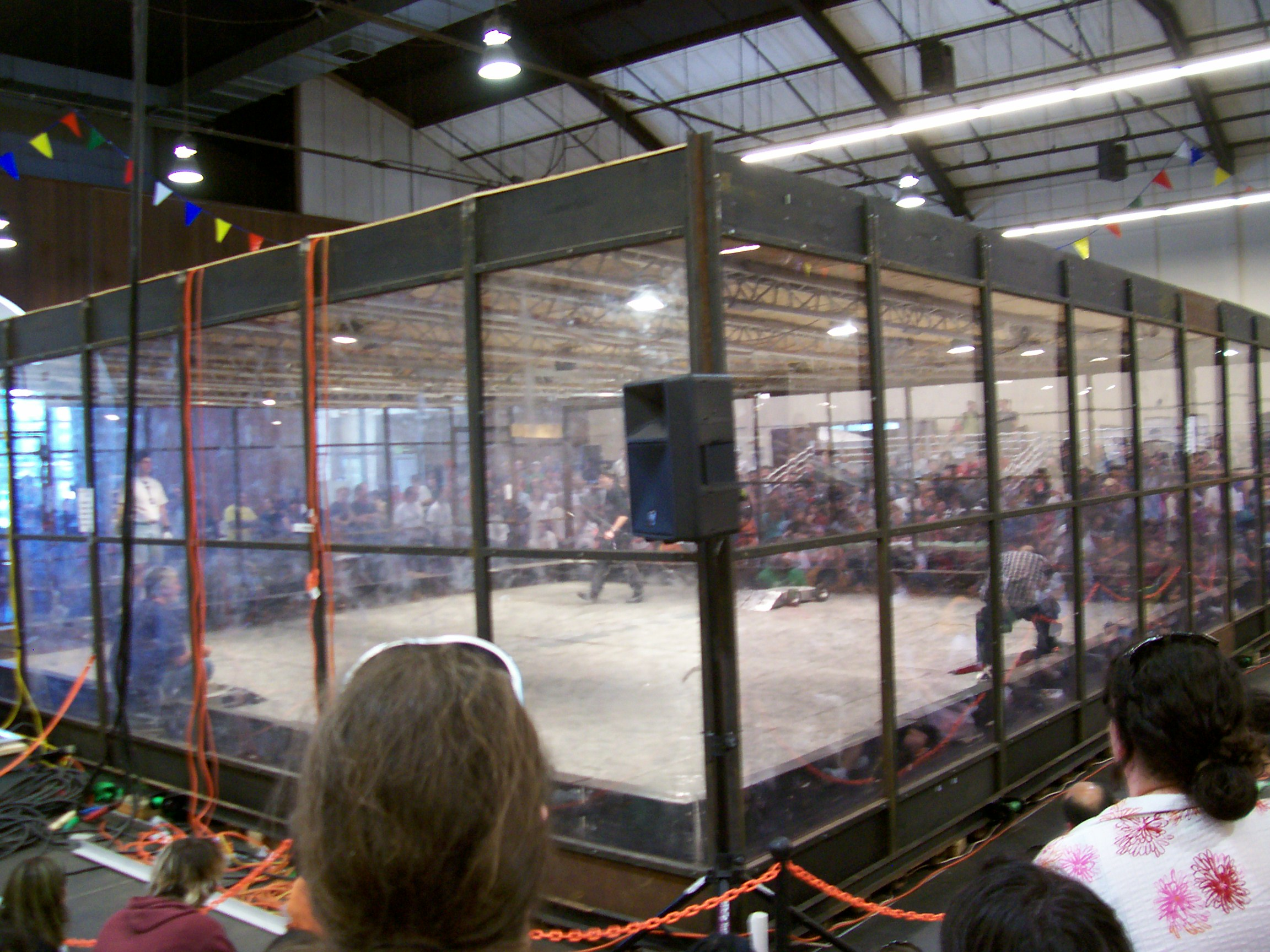 A robot battle arena was constructed onsite at Maker Faire.